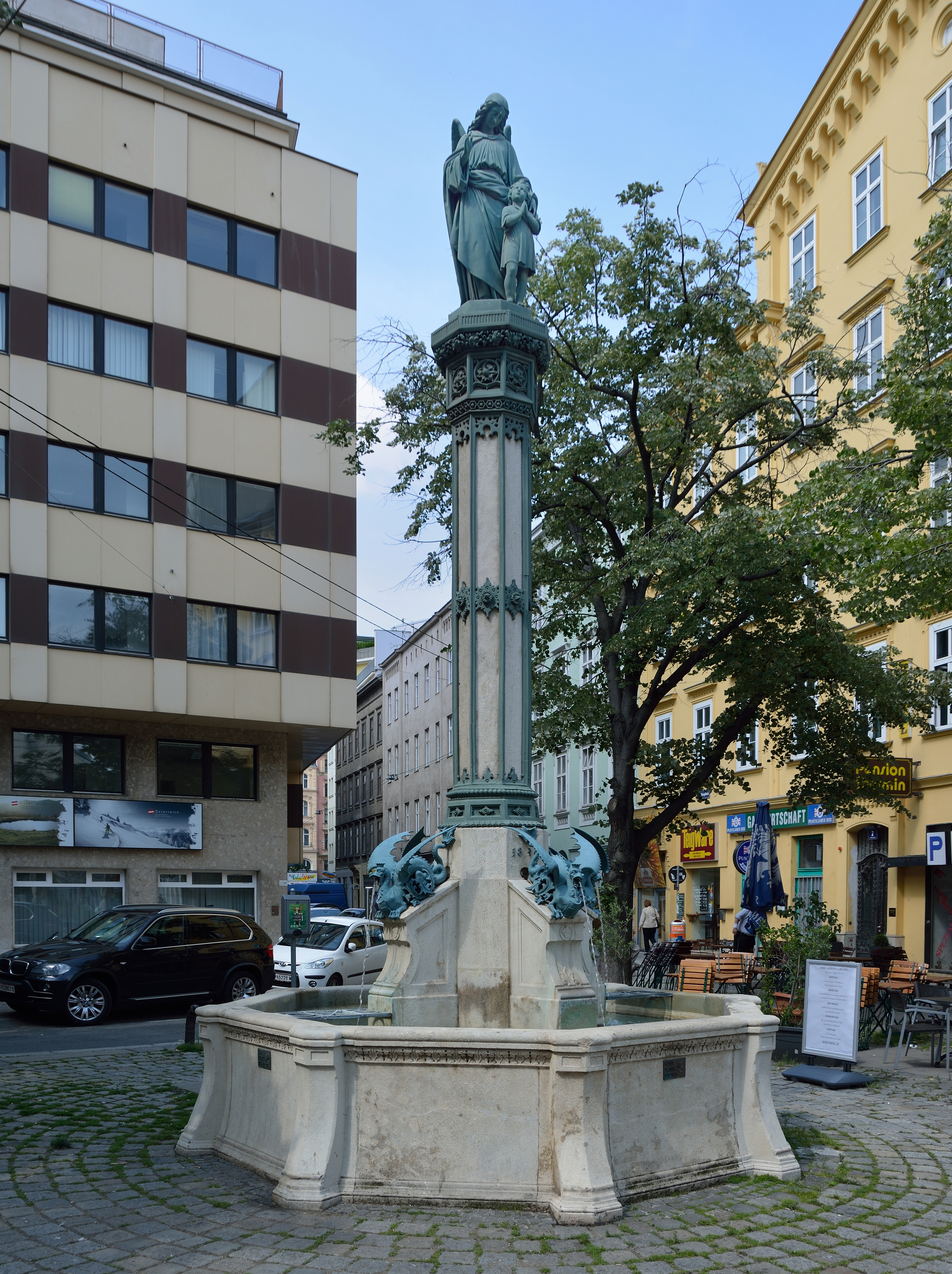 Schutzengelbrunnen, Rilkeplatz, 4th district of Vienna